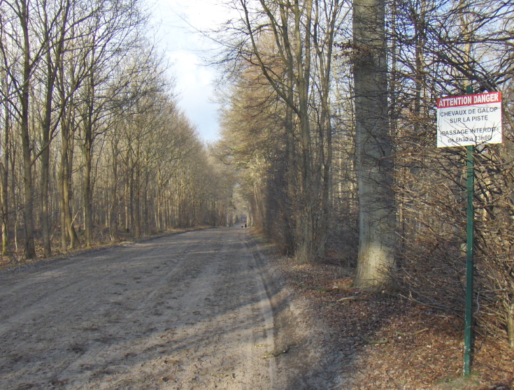 Route des Vieilles Garennes, Forest of Chantilly, near carrefour de la Table. Training track for horse racing.